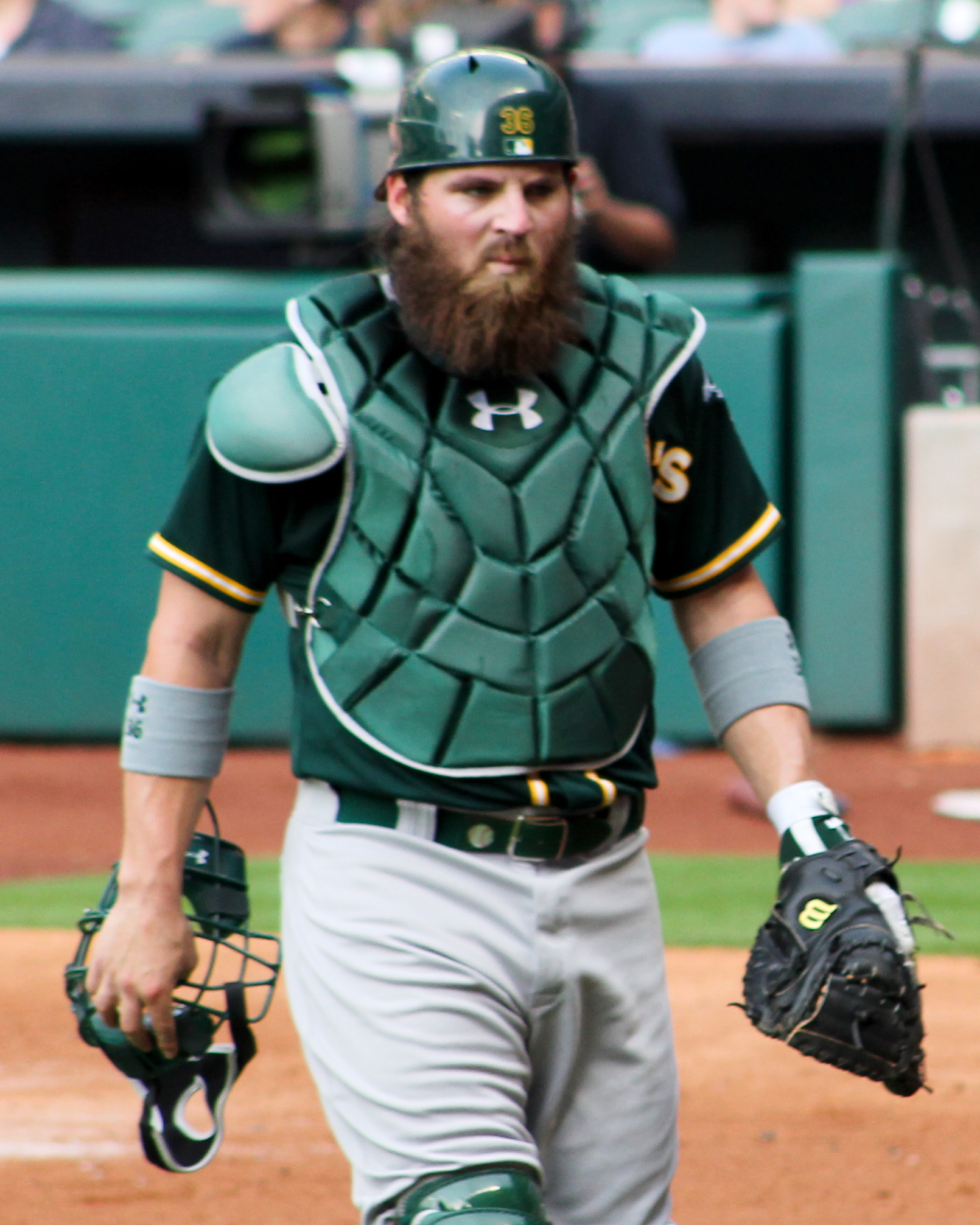 Oakland Athletics catcher Derek Norris at an April 2014 game at Minute Maid Park.